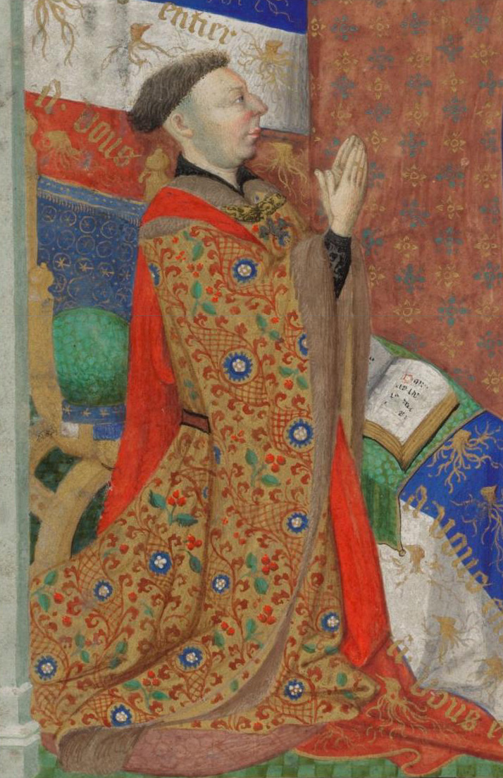 John, Duke of Bedford, praying before St George; from BL Add MS 18850, f. 256v (the "Bedford Hours"). Held and digitised by the British Library.